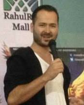 Edward Maya in 2014